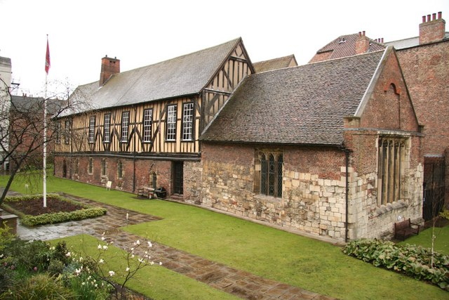 Merchant Adventurers Hall Scheduled Ancient Monument and Grade I listed medieval and Elizabethan guildhall